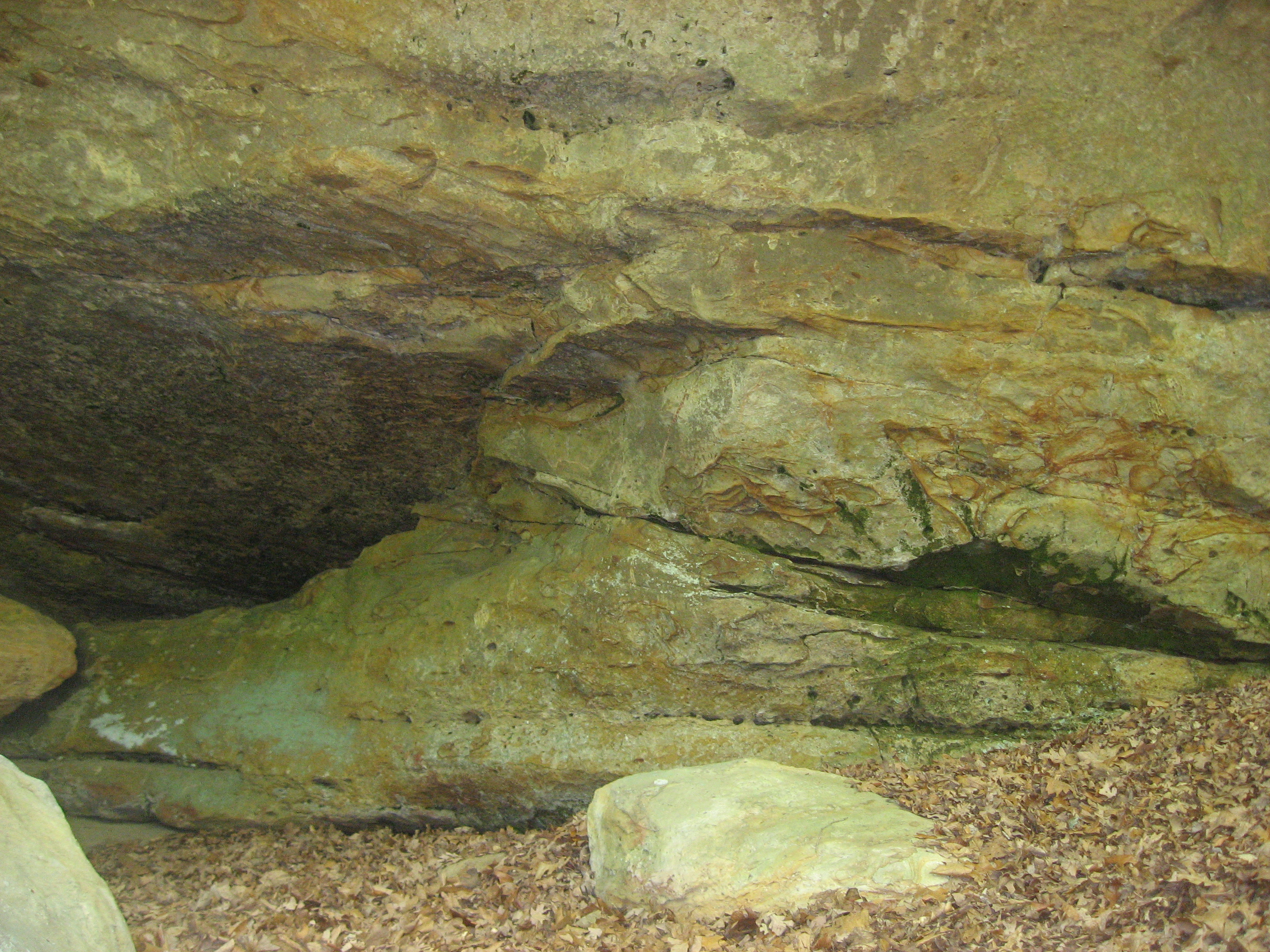 Overview of the main portion of the Piney Creek West Site, a major petroglyph site in the Piney Creek Ravine State Natural Area east of Chester in Randolph County, Illinois, United States. Unfortunately, photography cannot easily depict any of these petroglyphs. The site has been designated an archaeological site and is listed on the National Register of Historic Places.